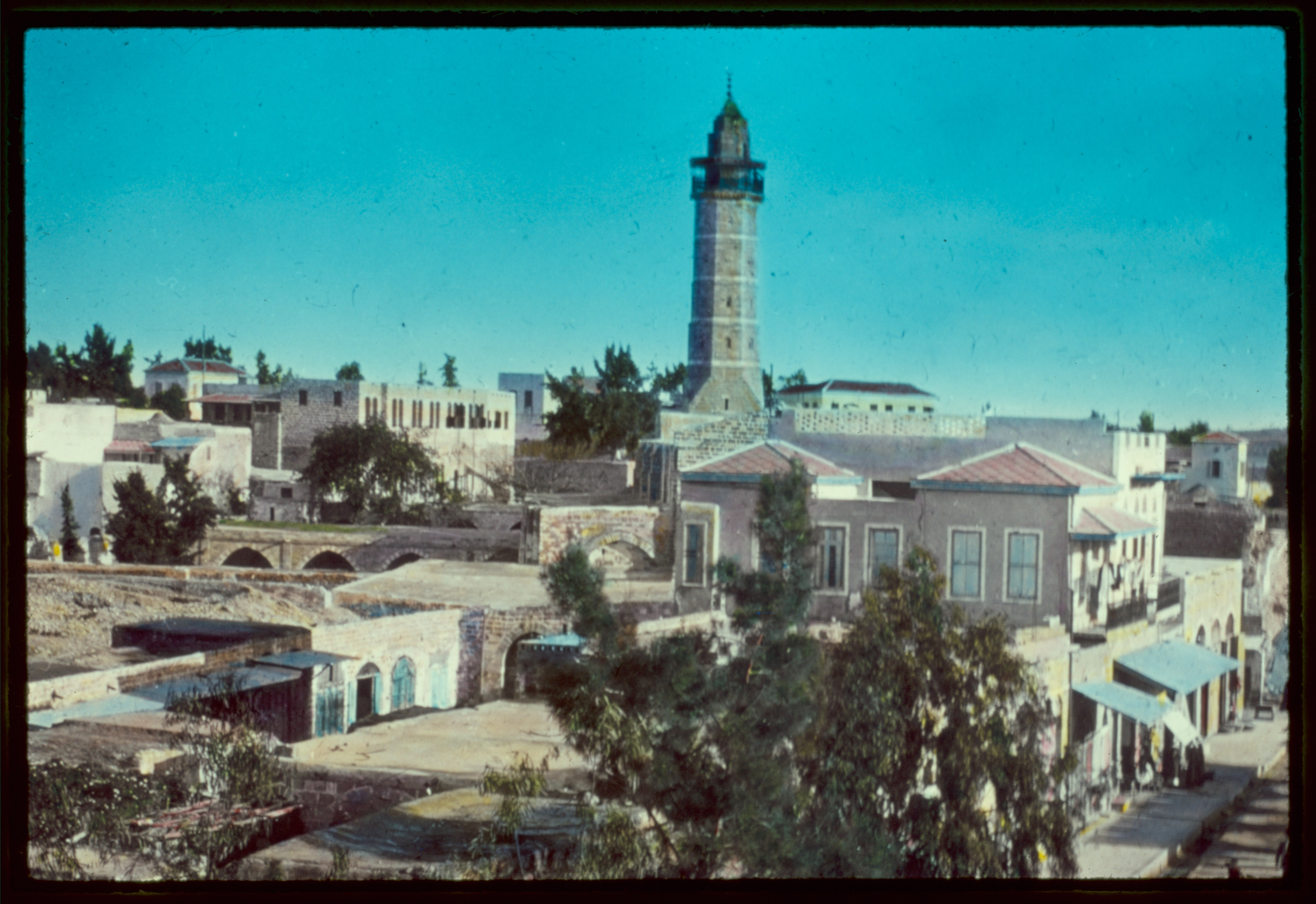 Title: Southern Palestine, Hebron, Beersheba and Gaza area. Gaza, central section Abstract/medium: G. Eric and Edith Matson Photograph Collection Physical description: 1 slide